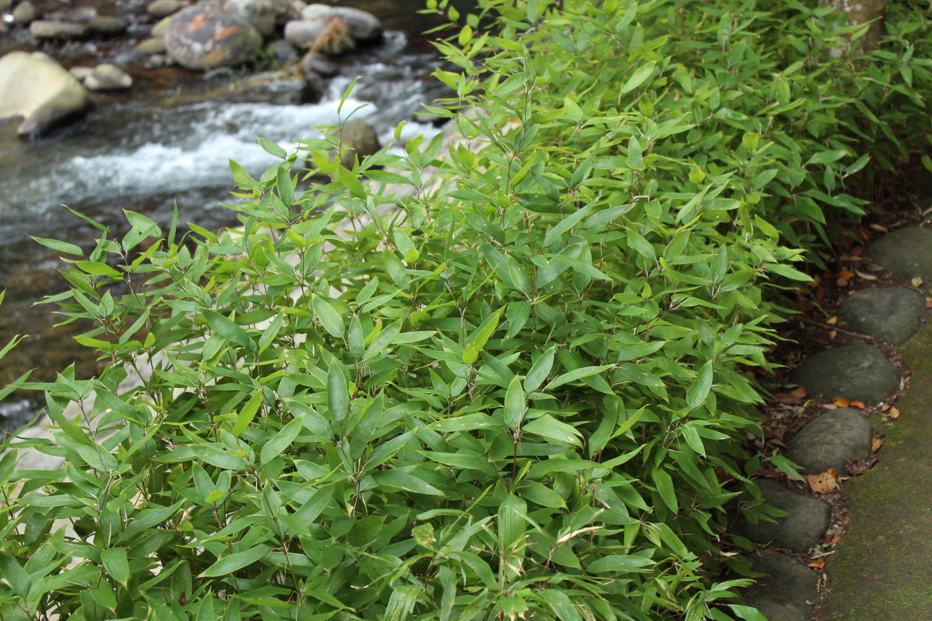 Shibataea kumasaca in Shizuoka Prefecture, Japan.